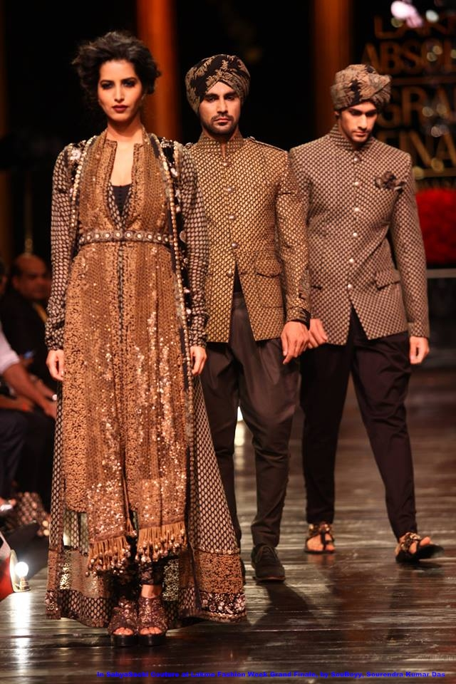 In SabyaSachi Couture at Lakme Fashion Week's Grand Finale, by SouBoyy, Sourendra Kumar Das.